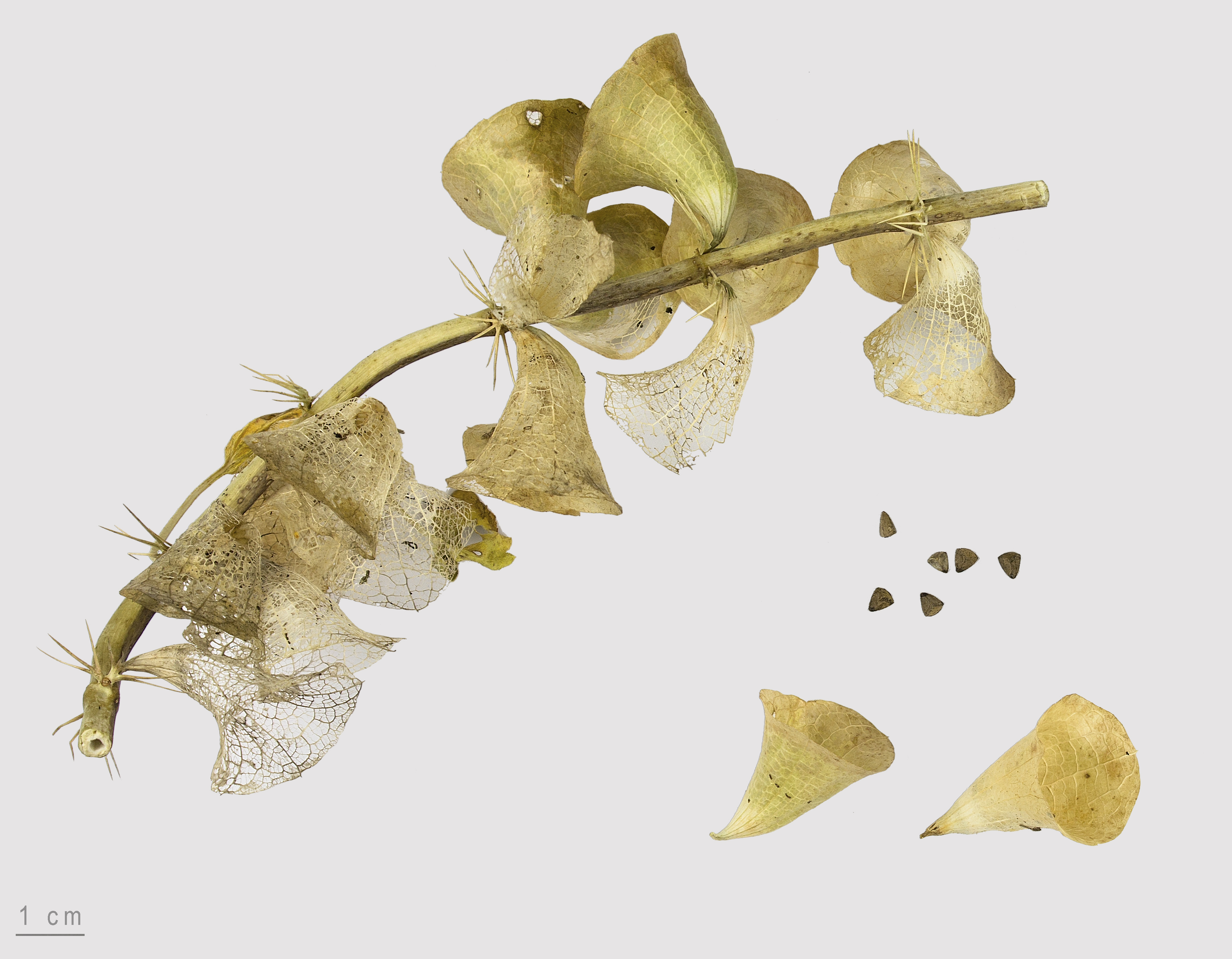 Bells-of-Ireland, fruits and seeds